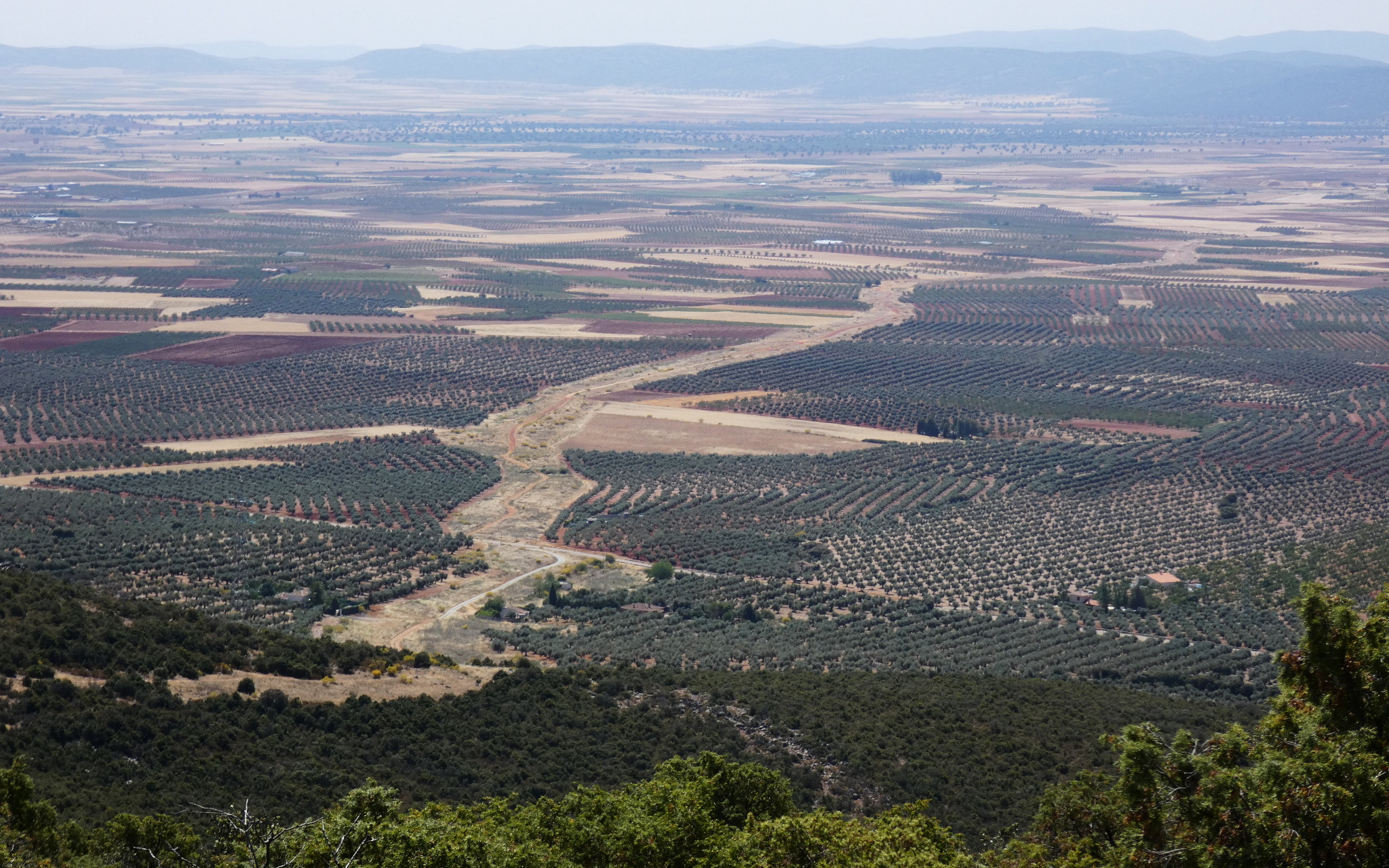 Se puede distinguir perfectamente su recorrido entre los olivares. Las cañadas se han utilizado durante siglos por los pastores para trasladar el ganado entre los pastos de invierno y los de verano. Actualmente se usan poco para eso. Pero están protegidas por la ley y son de dominio público. Muy recomendables para hacer senderismo y varios deportes.